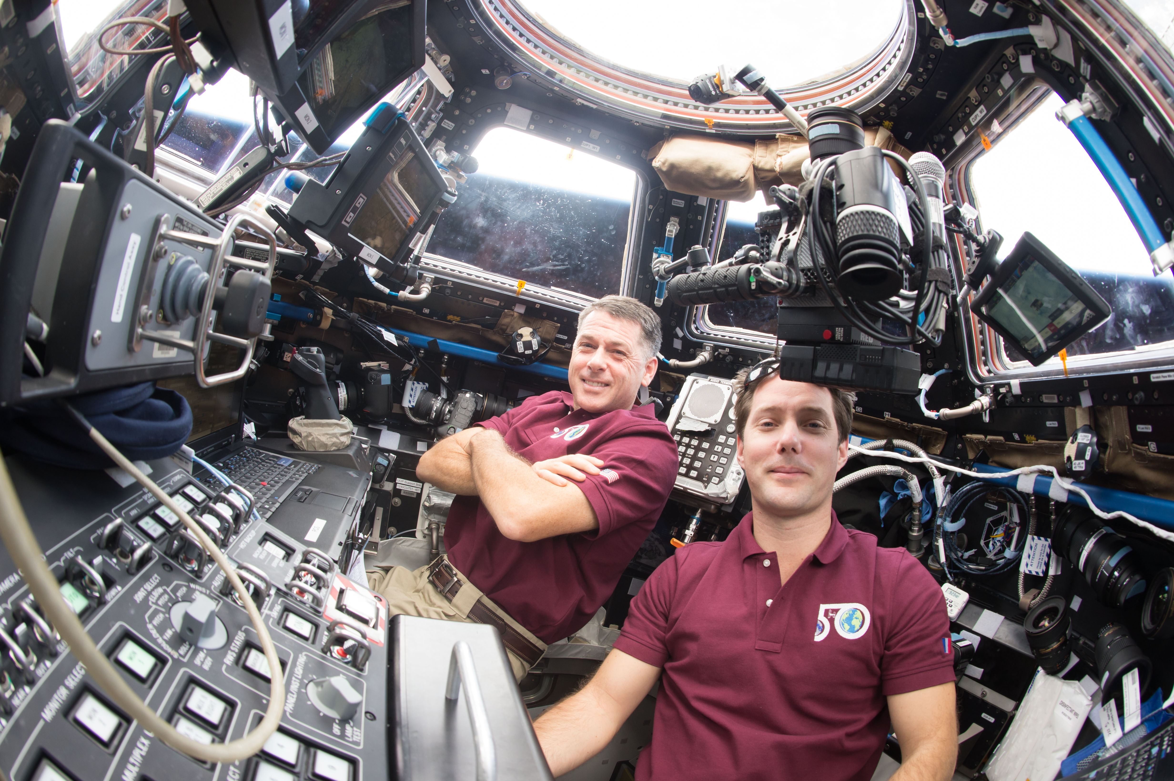 Expedition 50 crew members Shane Kimbrough of NASA (left) and Thomas Pesquet of ESA (right) work inside the Cupola module to robotically capture the Japanese HTV-6 cargo craft. HTV-6 launched from the Tanegashima Space Center in southern Japan on Friday, Dec. 9 and arrived at the space station on Tuesday, Dec. 13. The vehicle was loaded with more than 4.5 tons of supplies, water, spare parts and experiment hardware for the six-person station crew, including six new lithium-ion batteries and adapter plates that will replace the nickel-hydrogen batteries currently used on the station to store electrical energy generated by the station’s solar arrays.